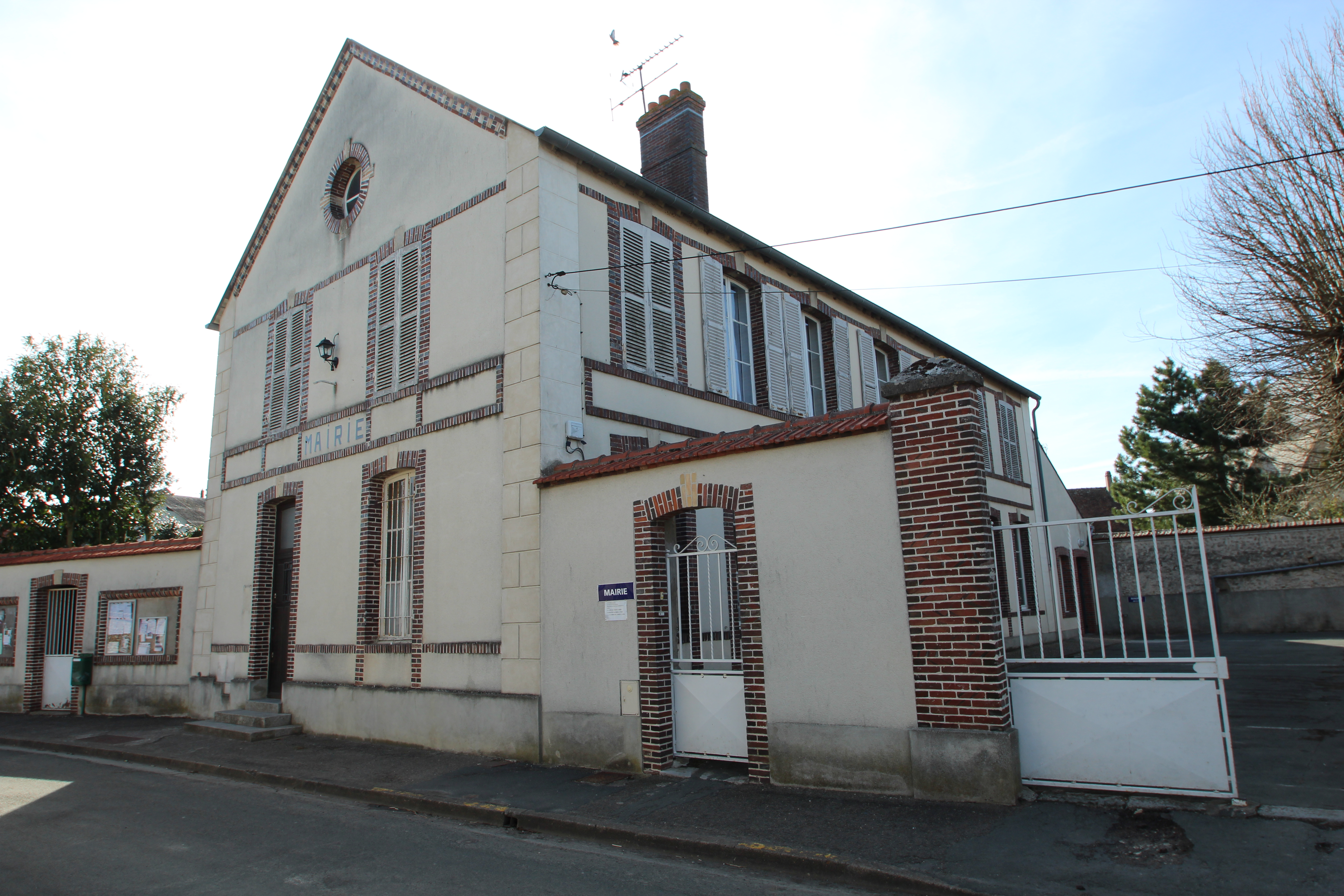 Town hall in Gommerville, Eure-et-Loir, France. Object location48° 20′ 45.59″ N, 1° 56′ 41.87″ E